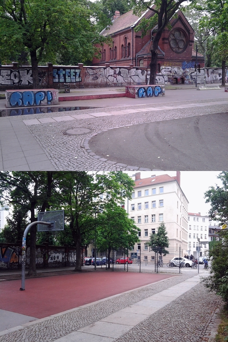 Toys and skating area on the Pappelplatz